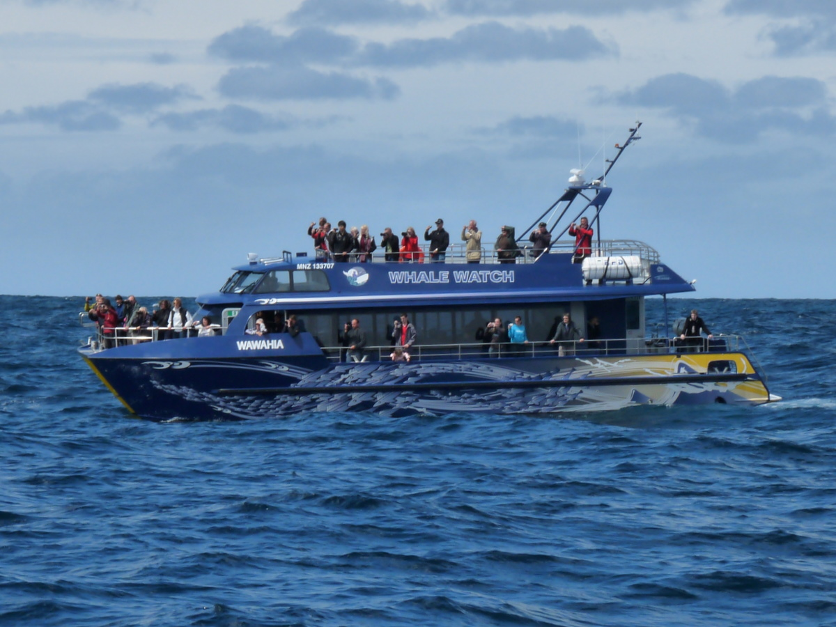 A sister ship of the one we were on.